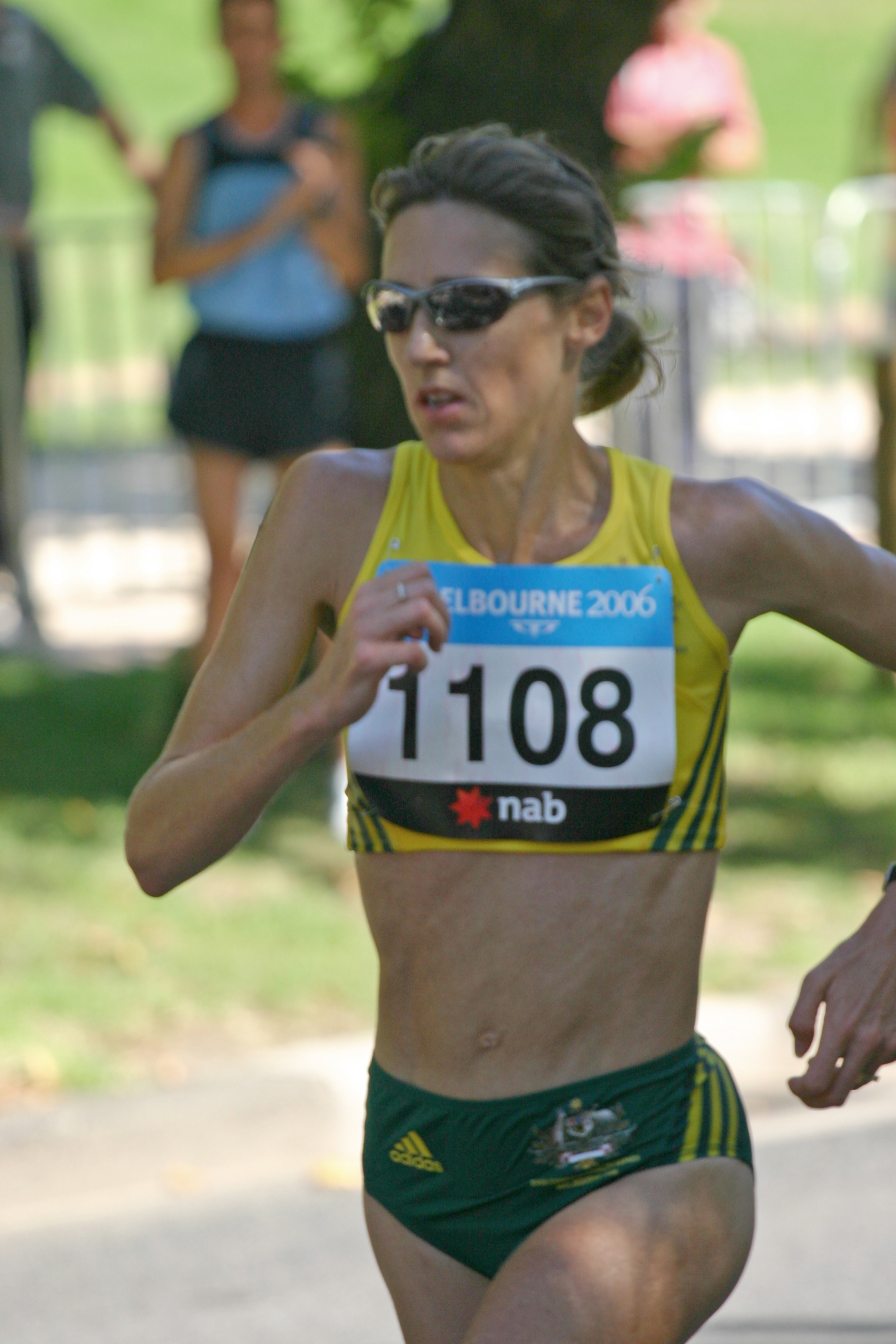 Kerryn McCann on her own as she took gold in the Marathon at the 2006 Commonwealth Games in Melbourne